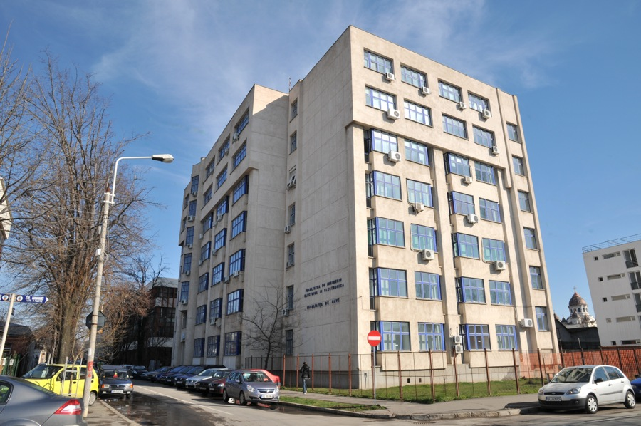 Picture of the Y Building at the University of Galaţi